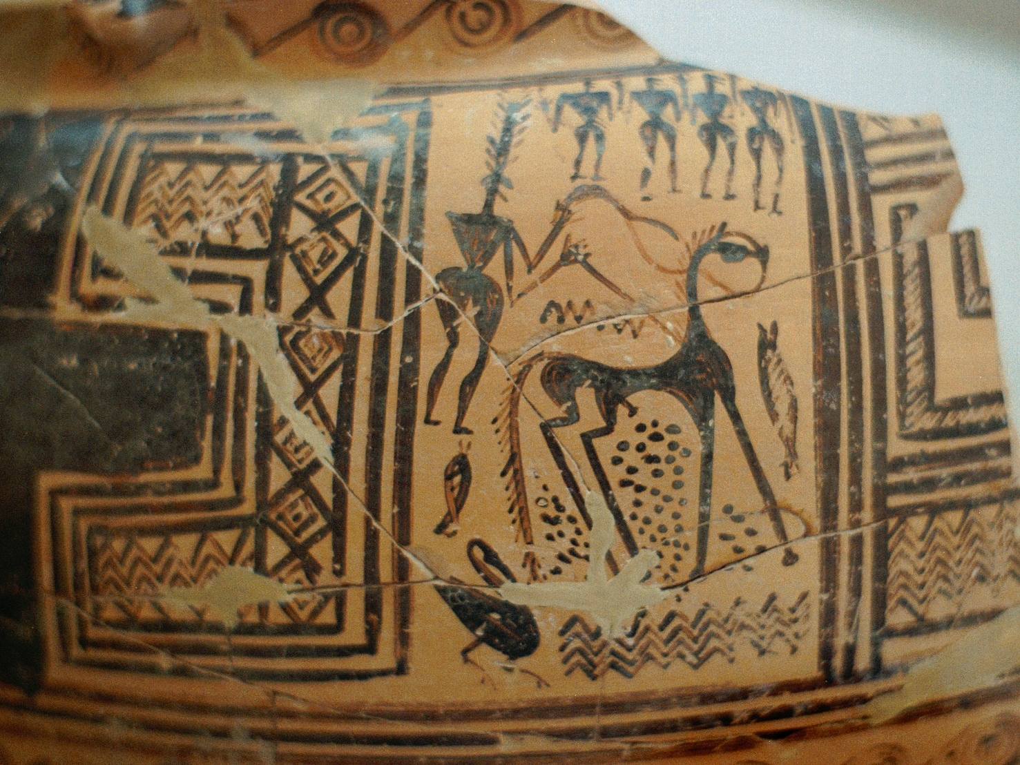 Greek geometric pottery, 8th century BC. A female figure (priestess or goddess) with high headdress has the reins, but also something else, probably a sword. Probably sacrificing a horse who is at the water (or in water), surrounded by fish and pelicans. At the top of the other human figures look like something important. Archaeological Museum of Argos.